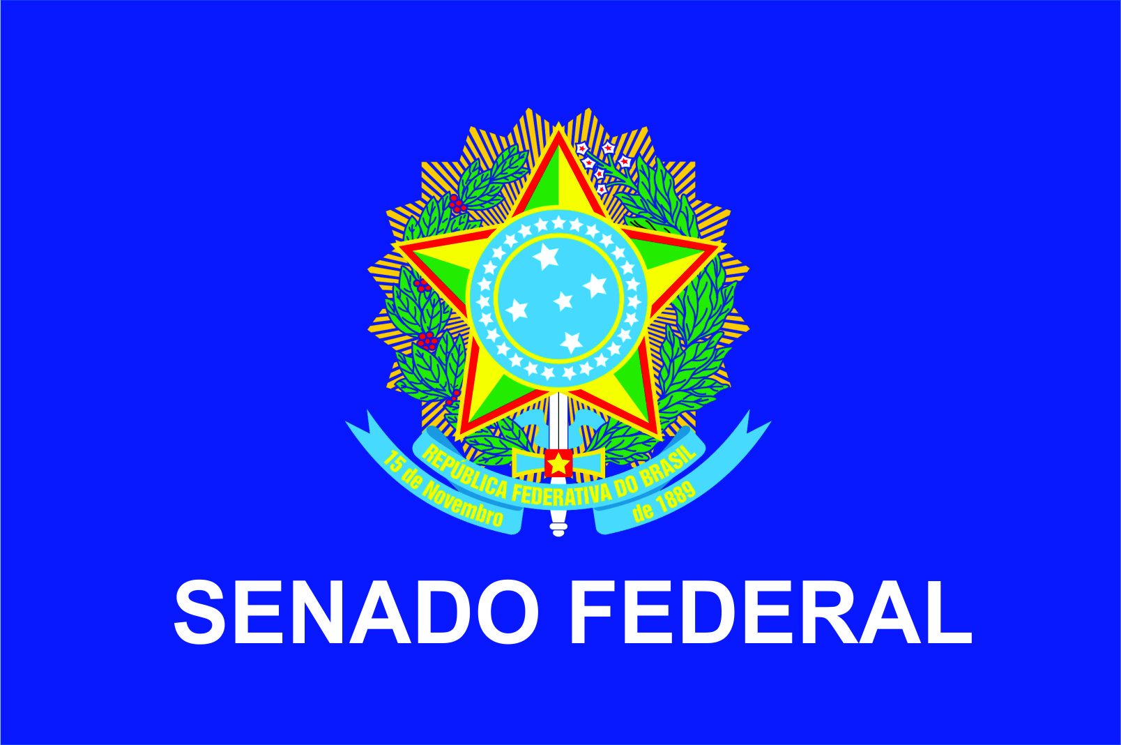 Flag of the Federal Senate of Brazil.